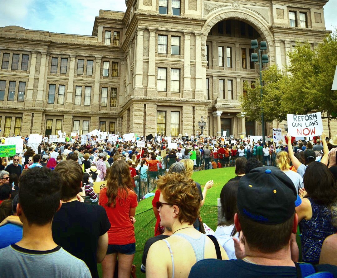 March for Our Lives rally in Austin, Texas